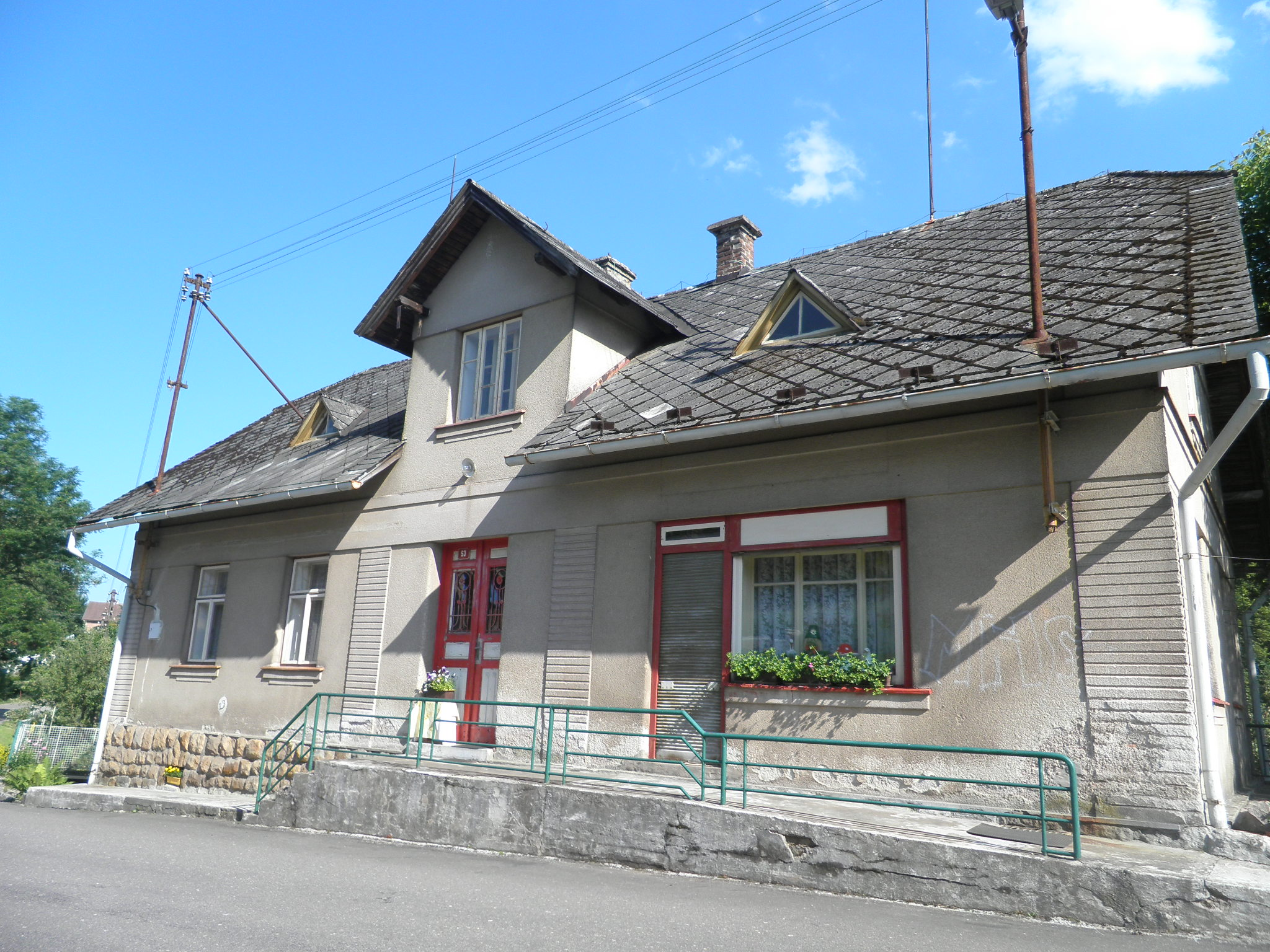 Tobiska family house in Ceska Rybna